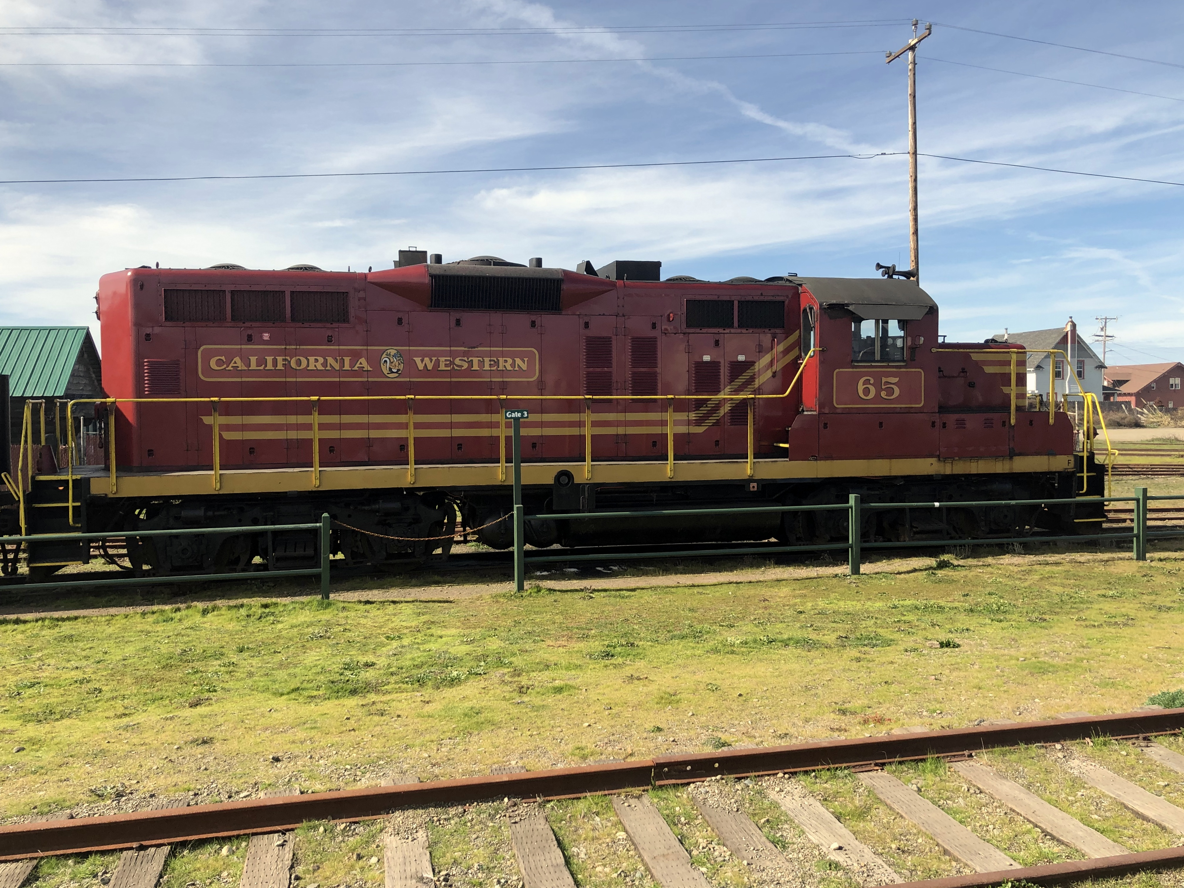 Locomotive GP9 #65, California Western (aka "Skunk Train") in Fort Bragg